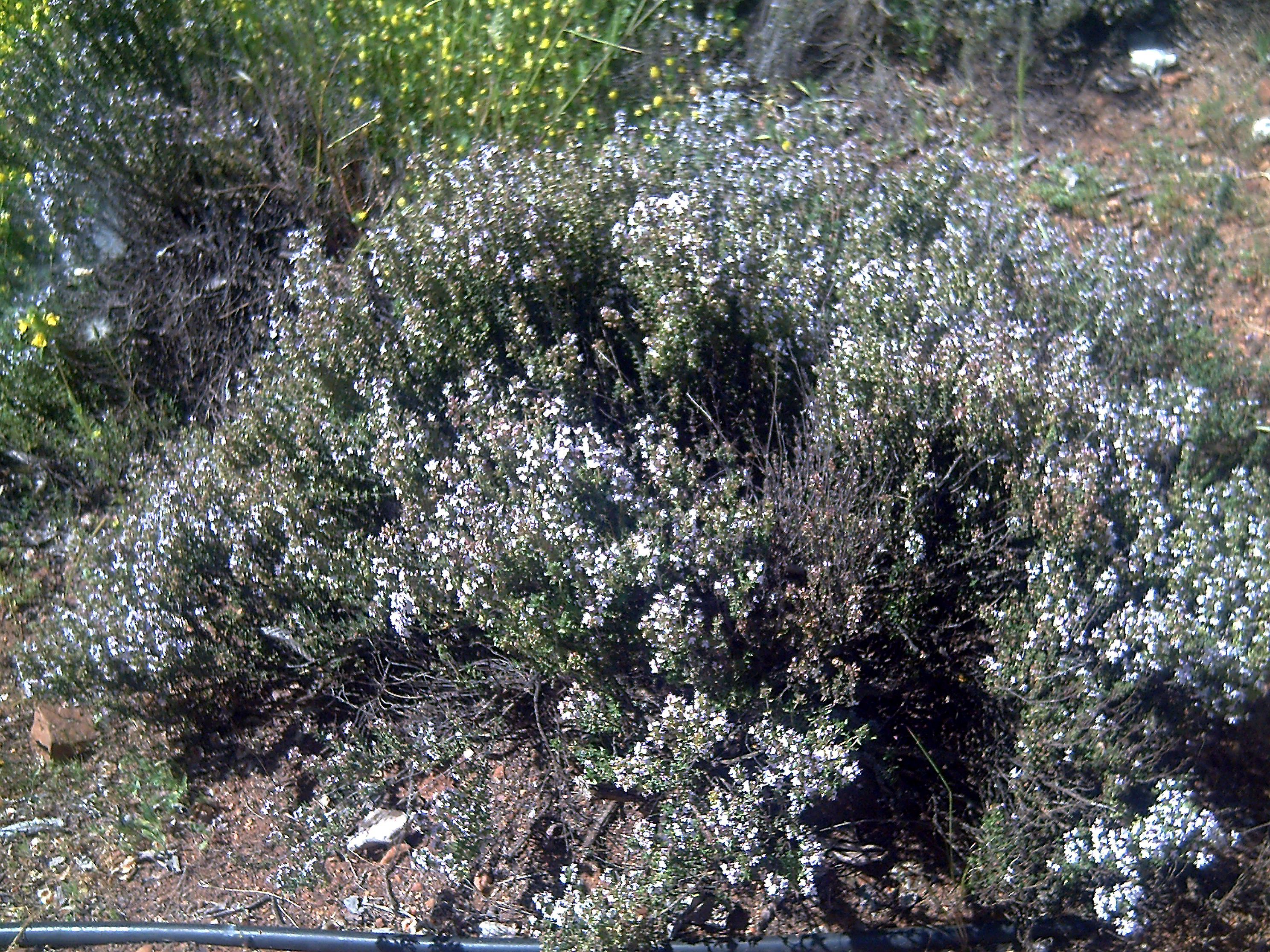 Thymus vulgaris plant in Dehesa Boyal de Puertollano, Spain